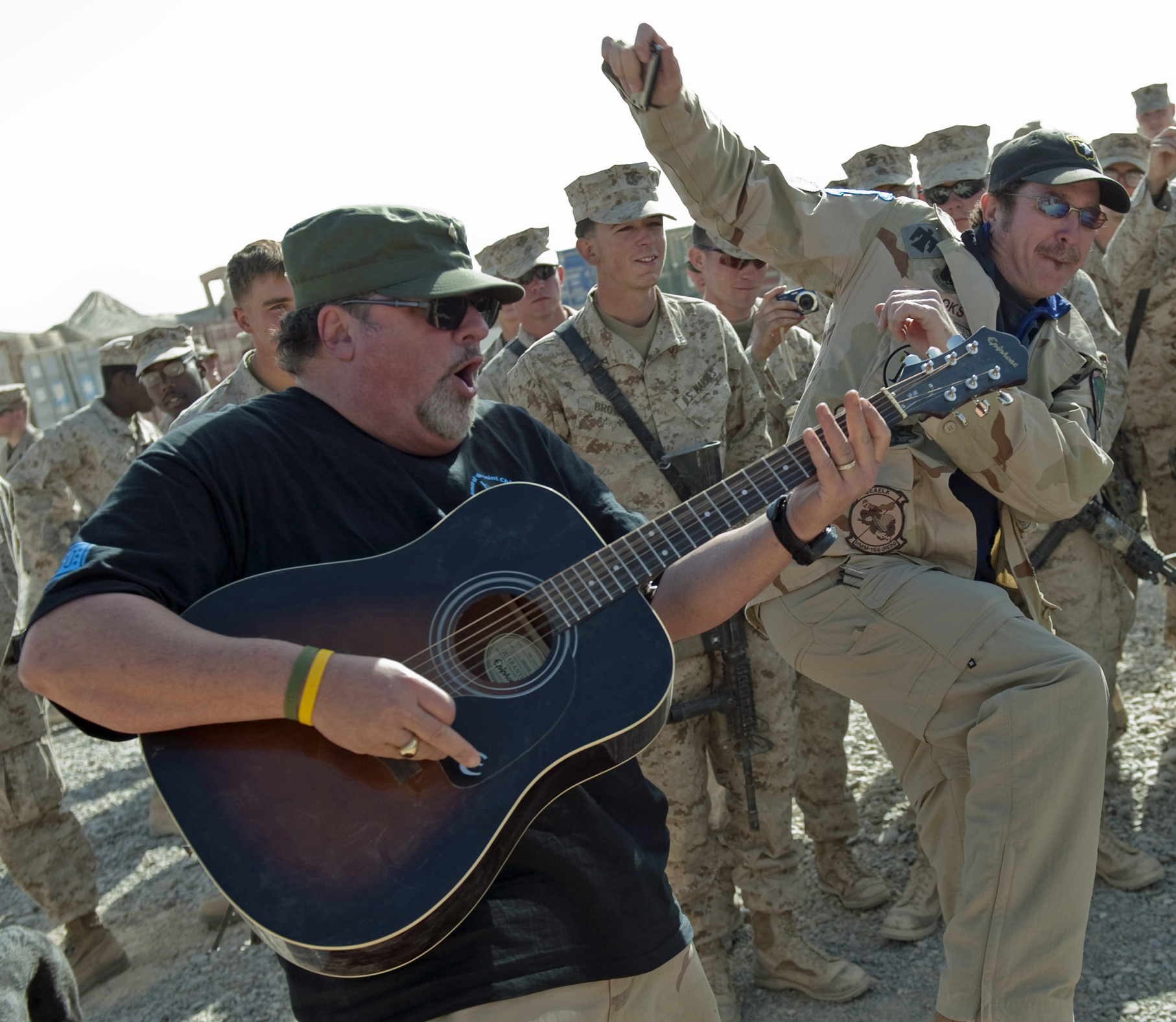 Songwriter Bob DiPiero, left, and country music artist Kix Brooks, of Brooks & Dunn, perform for U.S. Marines of 2nd Battalion, 6th Marine Regiment at Camp Hanson in Helmand province, Afghanistan. Dipiero and Brooks were part of the annual USO holiday tour, which was hosted by Chairman of the Joint Chiefs of Staff Navy Adm.